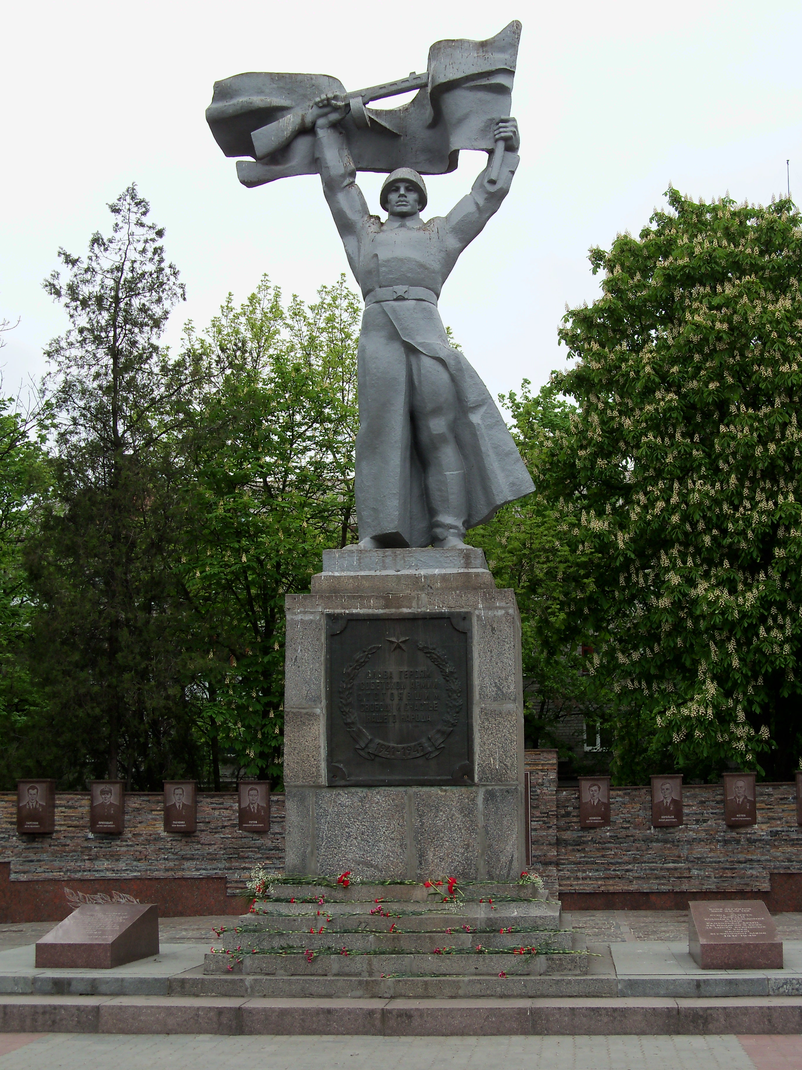 Cenotaph in Kremenchuk